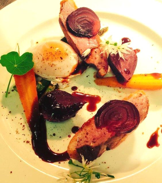 An example of the cooking and presentation style of modern Irish Food. This dish is a grilled Duck Breast and Venison with a poached Egg, Carrot, Beetroot and Wild Garlic.